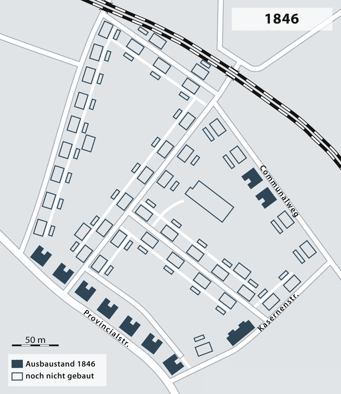 Siedlung Eisenheim (Oberhausen, Germany) in 1846